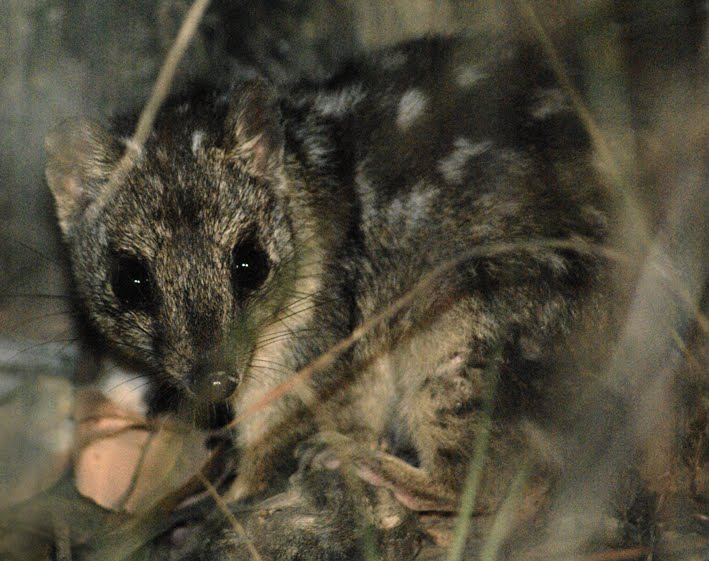 Northern Quoll photographed between Mareeba and Cairns, Queensland, Australia.